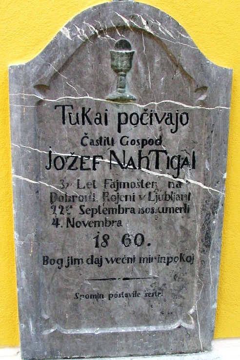 Jozef Nahtigal tombstone in Dobrova Slovenia